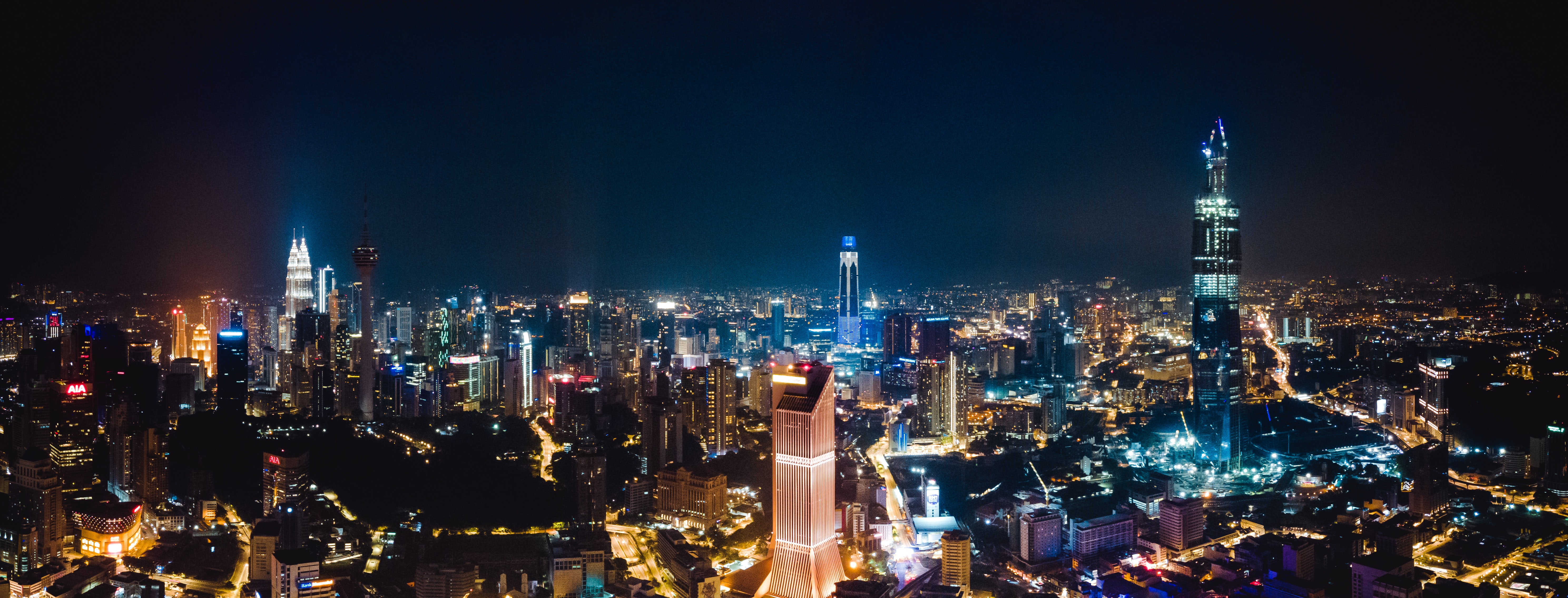 Panorama View Of Kuala Lumpur